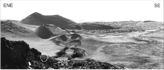 Photo of a basaltic fissure eruption along La Carbonilla fault in the eastern basaltic field, showing the main scoria cone and small fissure ridges aligned in a E-W orientation. See the person inside the circle for scale